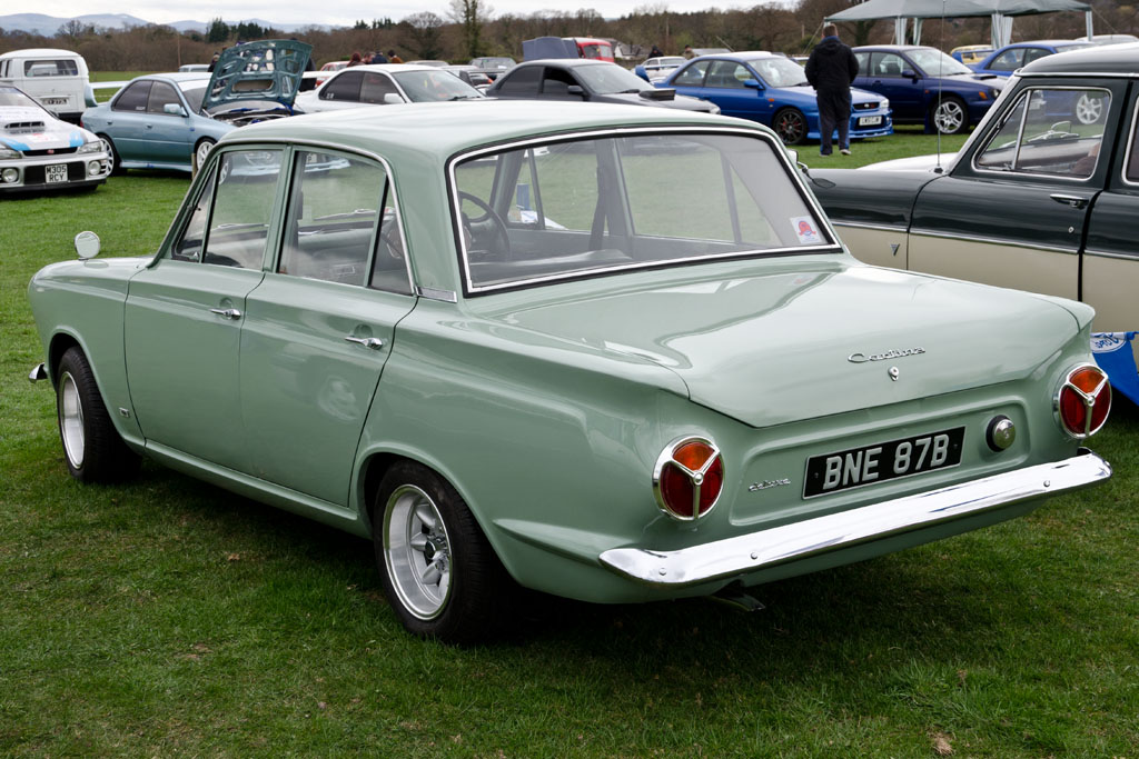 St Asaph Classic Car Show 21/04/2013